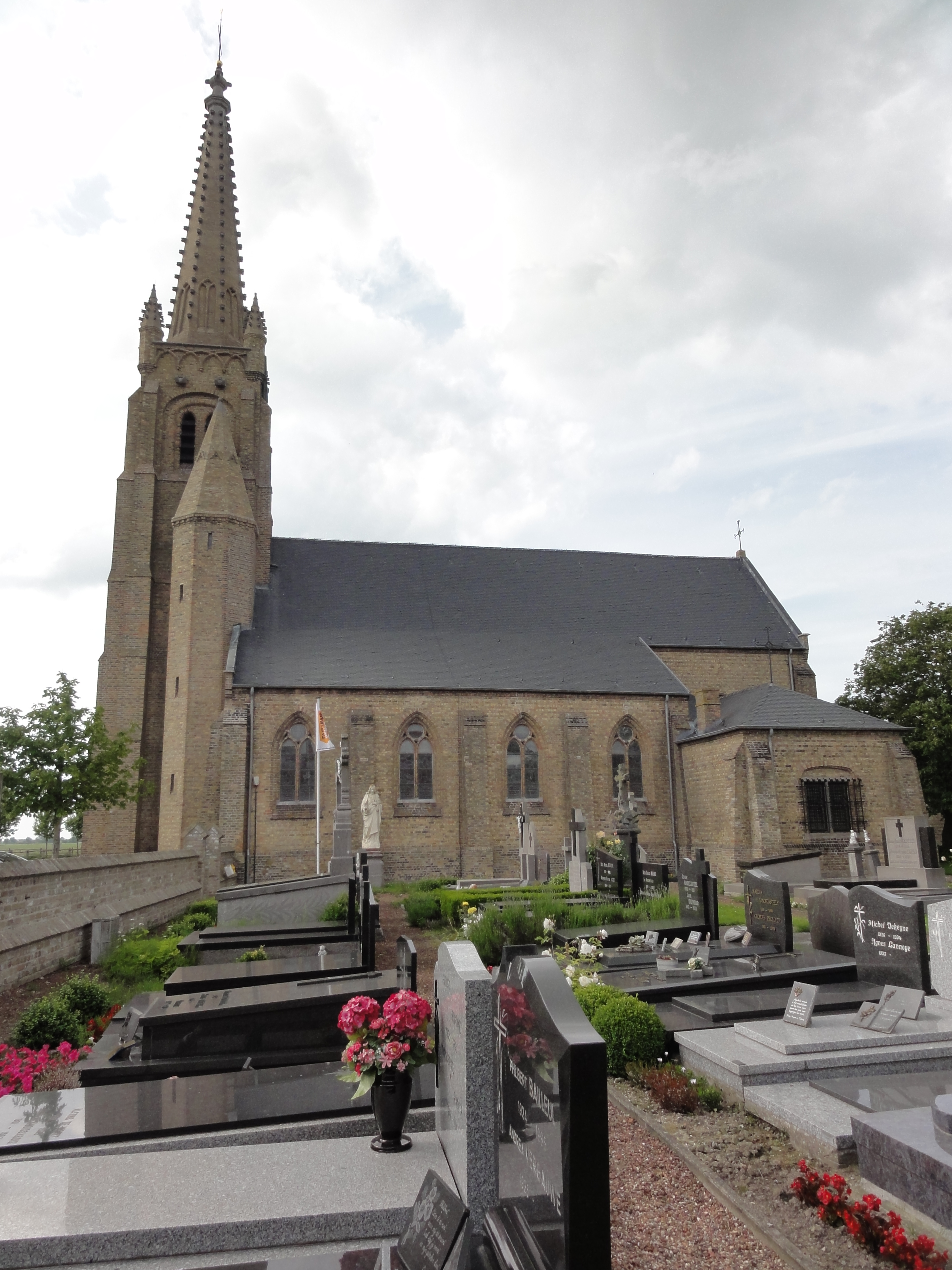 Sint-Petruskerk (Church of Saint Peter) in Stuivekenskerke. Stuivekenskerke, Diksmuide, West Flanders, Belgium